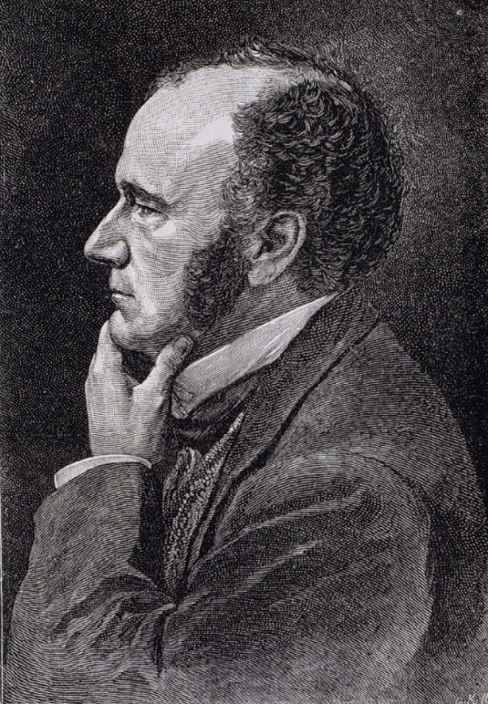 Profile engraving of Carlile P. Patterson, Superintendent of the Coast and Geodetic Survey